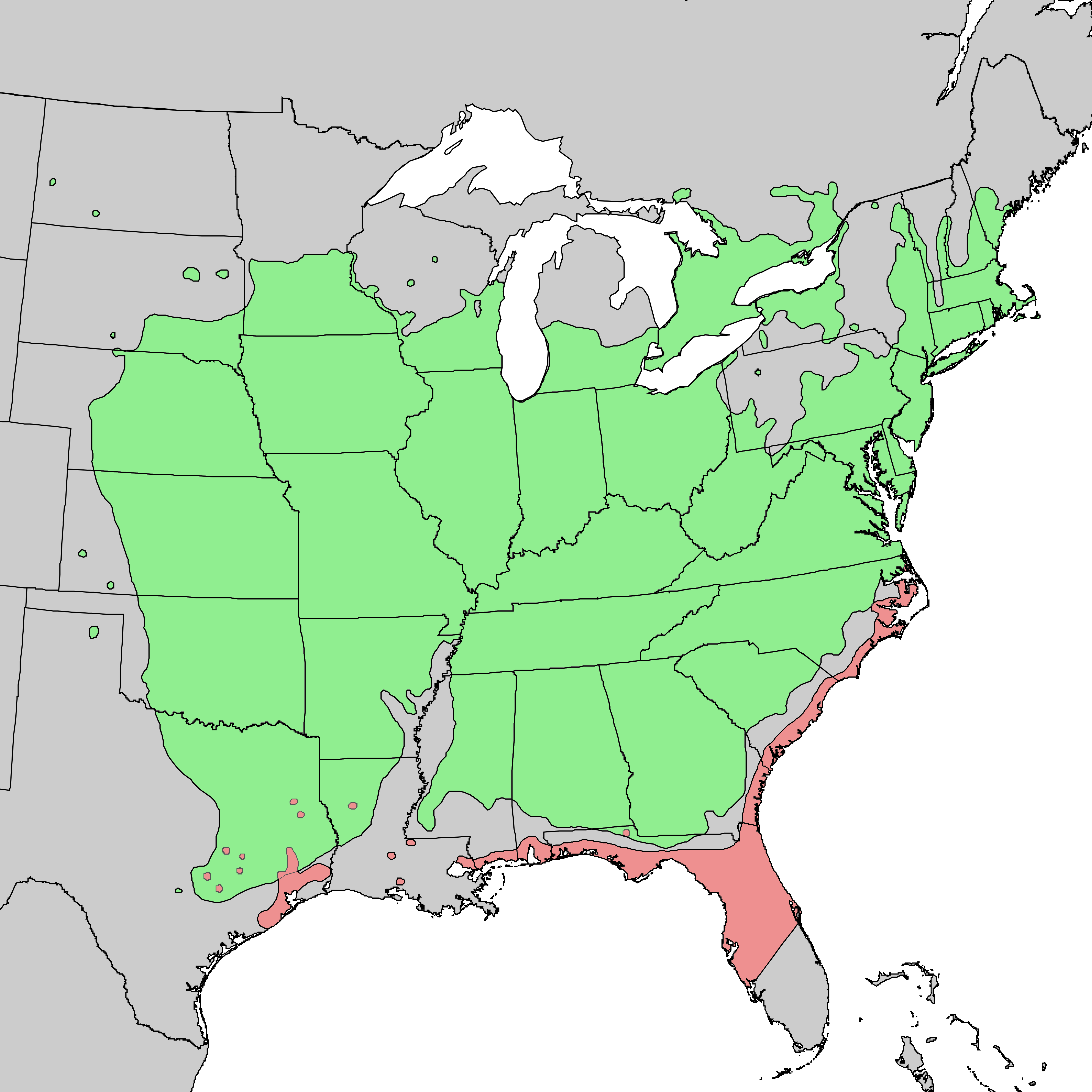 Natural distribution map for Juniperus virginiana var. virginiana (eastern redcedar) shown in green and Juniperus virginiana var. silicicola (southern redcedar) shown in red.